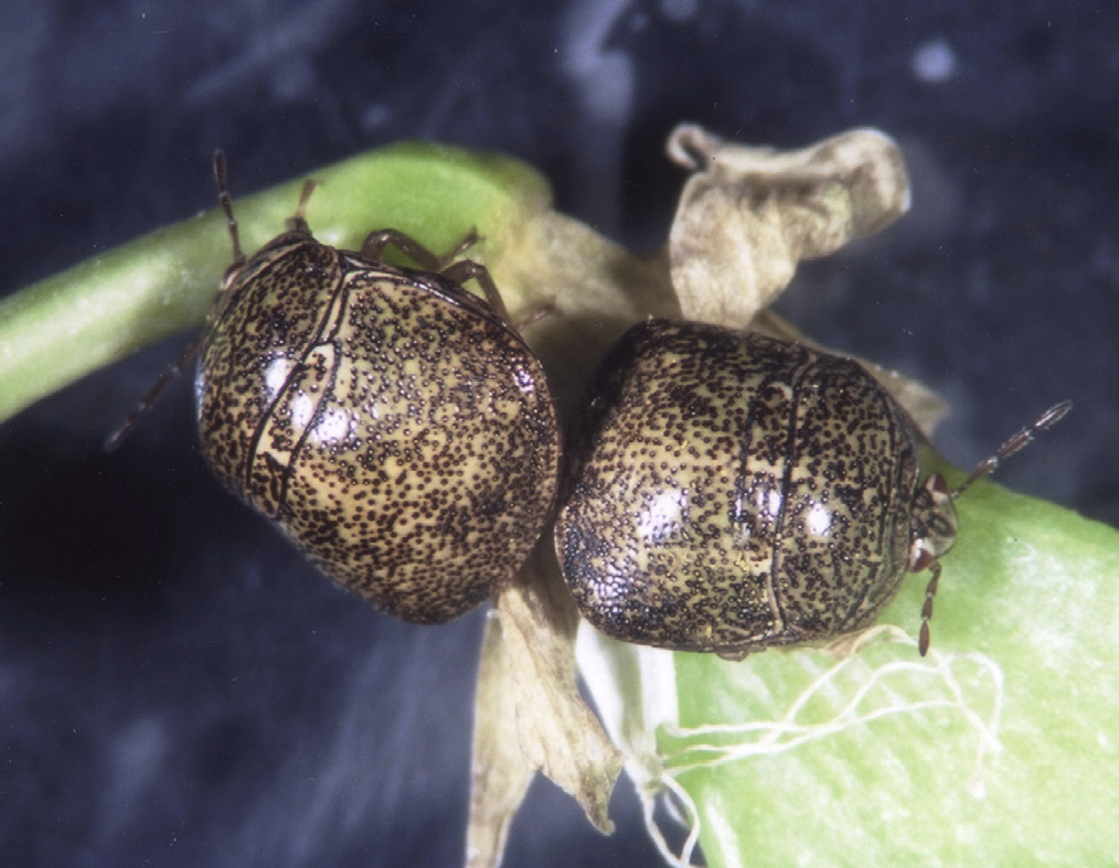 A mating pair of the Japanese common plataspid stinkbug Megacopta punctatissimum.